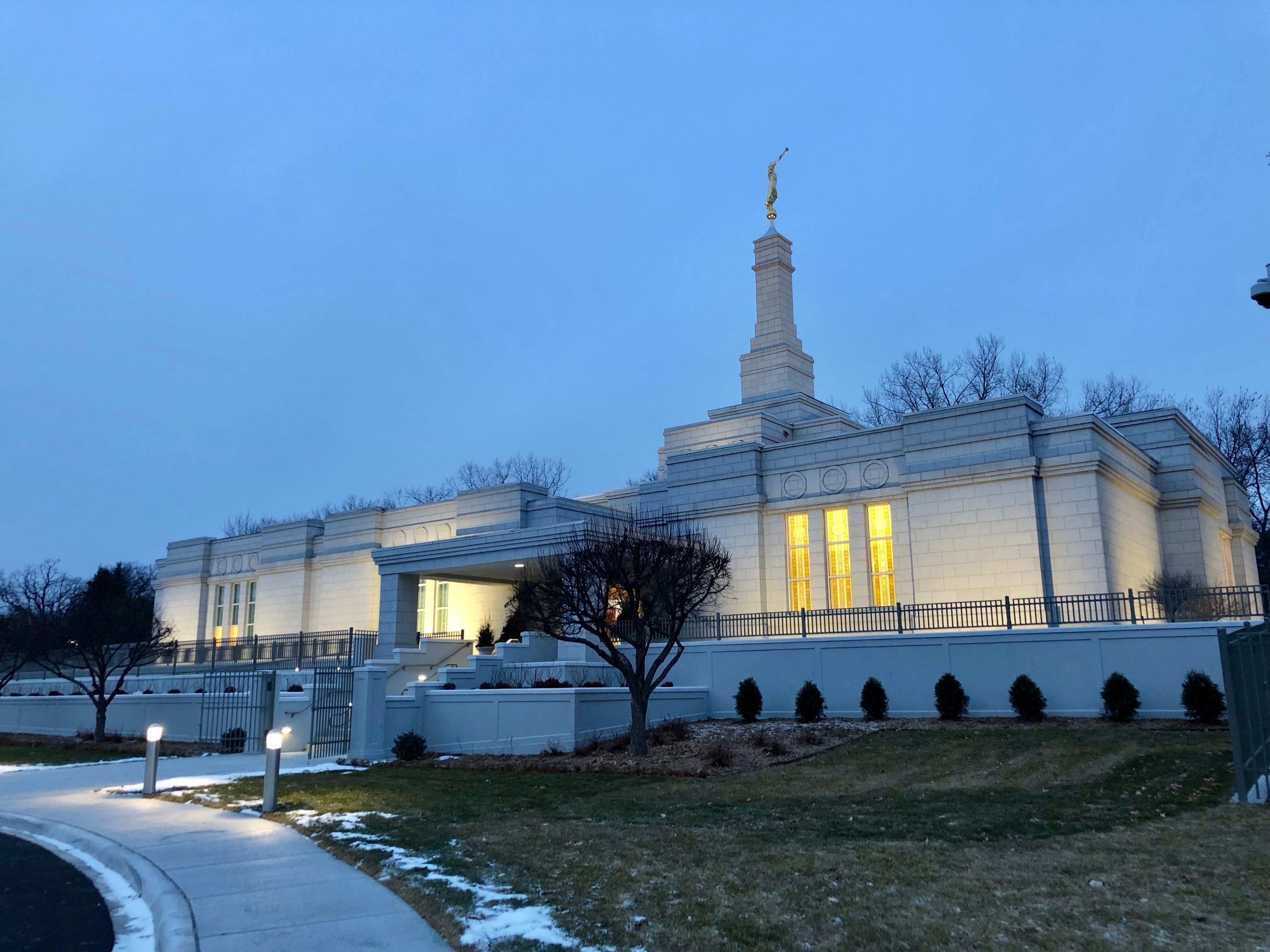 Photograph of the St. Paul Minnesota Latter-day Saint Temple in the evening, taken 27 December 2018